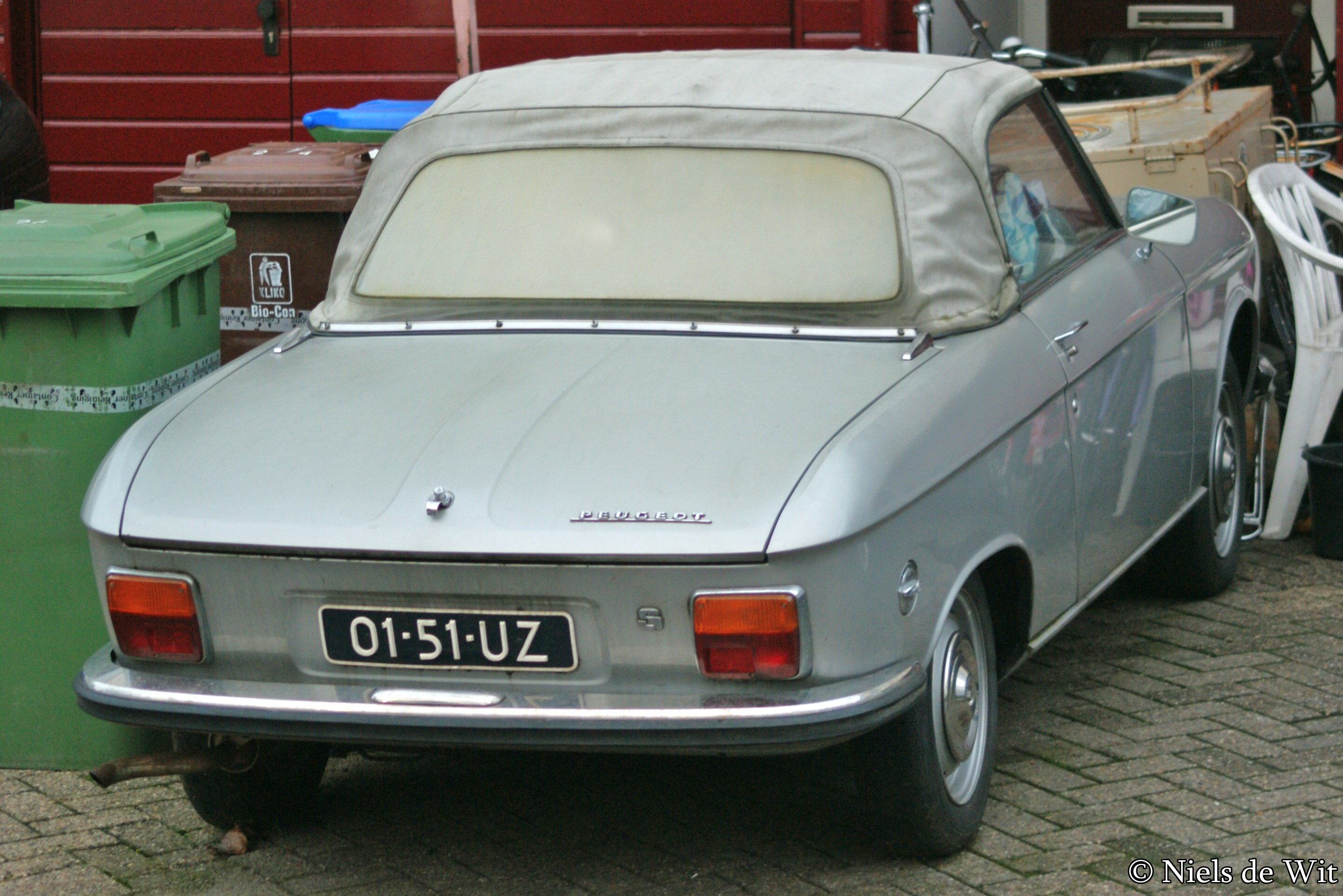 01-51-UZ The licence plate is unknown in the Dutch registration.